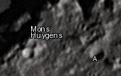 Mons Huygens lunar crater as seen from Earth with satellite craters labeled